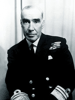 Studio portrait of Vice Admiral H. M. Burrell, Commander of HMAS Norman 1941-1943.